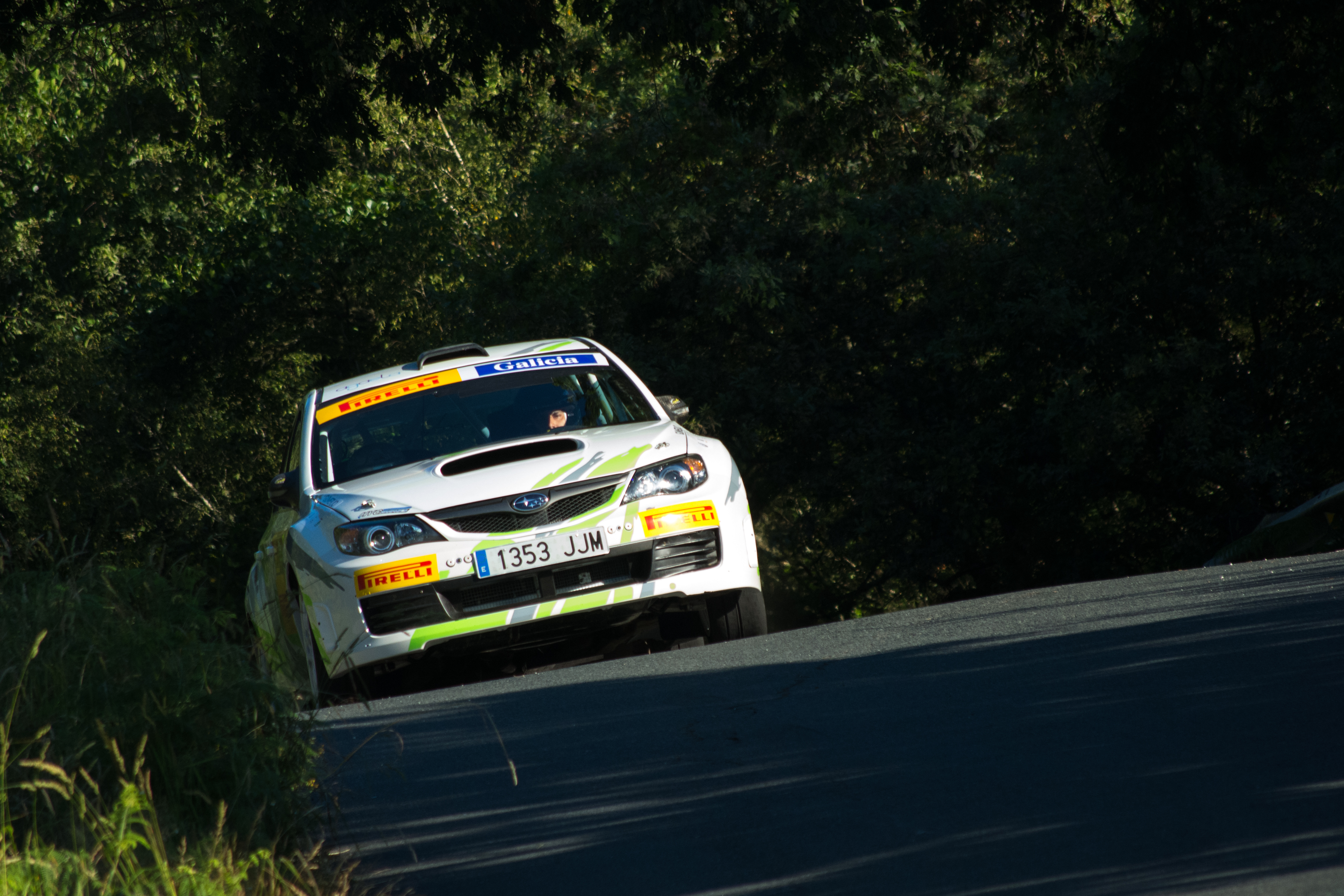 Rally Sur do Condado 2016